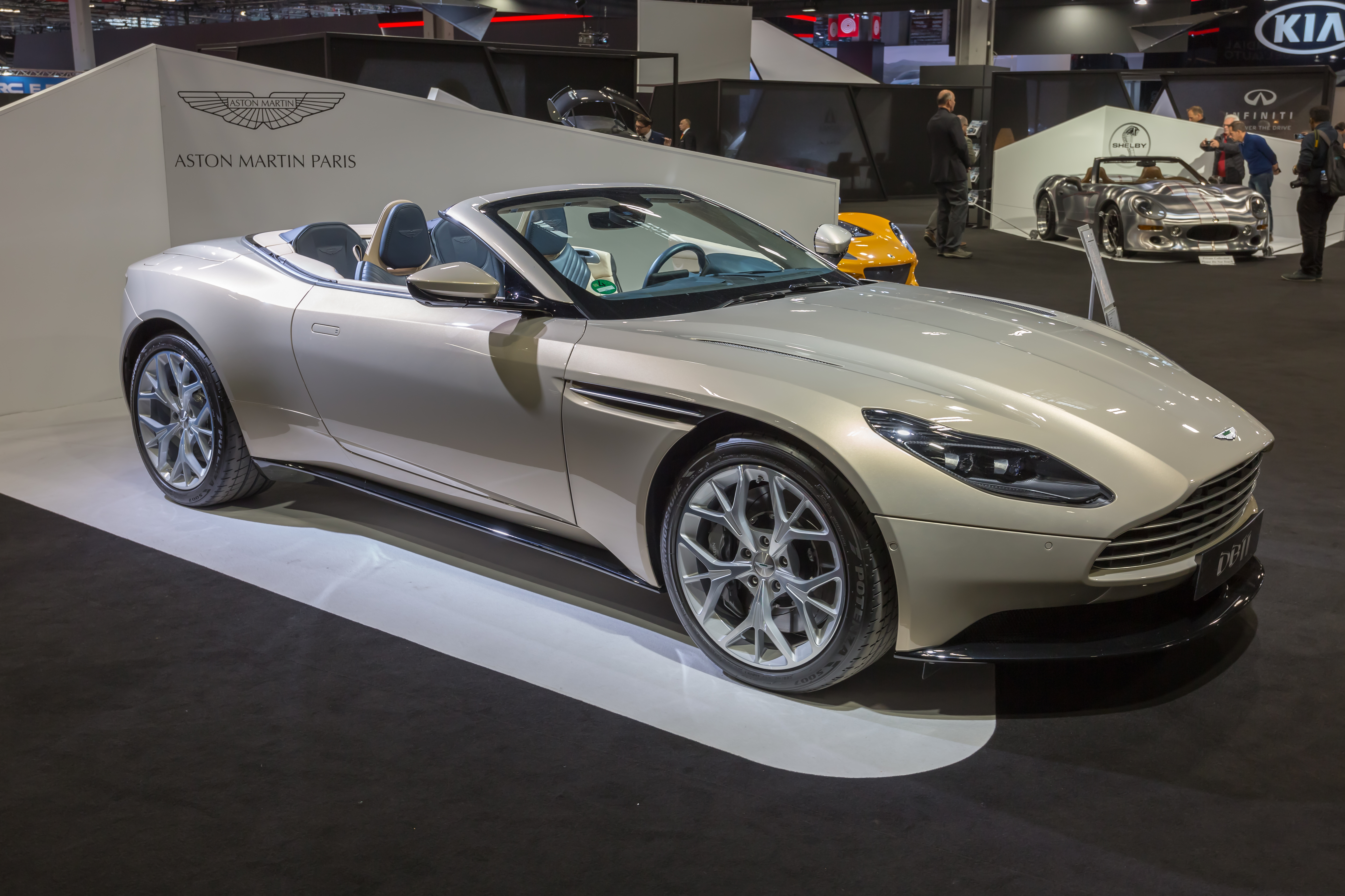 Aston Martin DB11 Volante, Mondial Paris Motor Show 2018